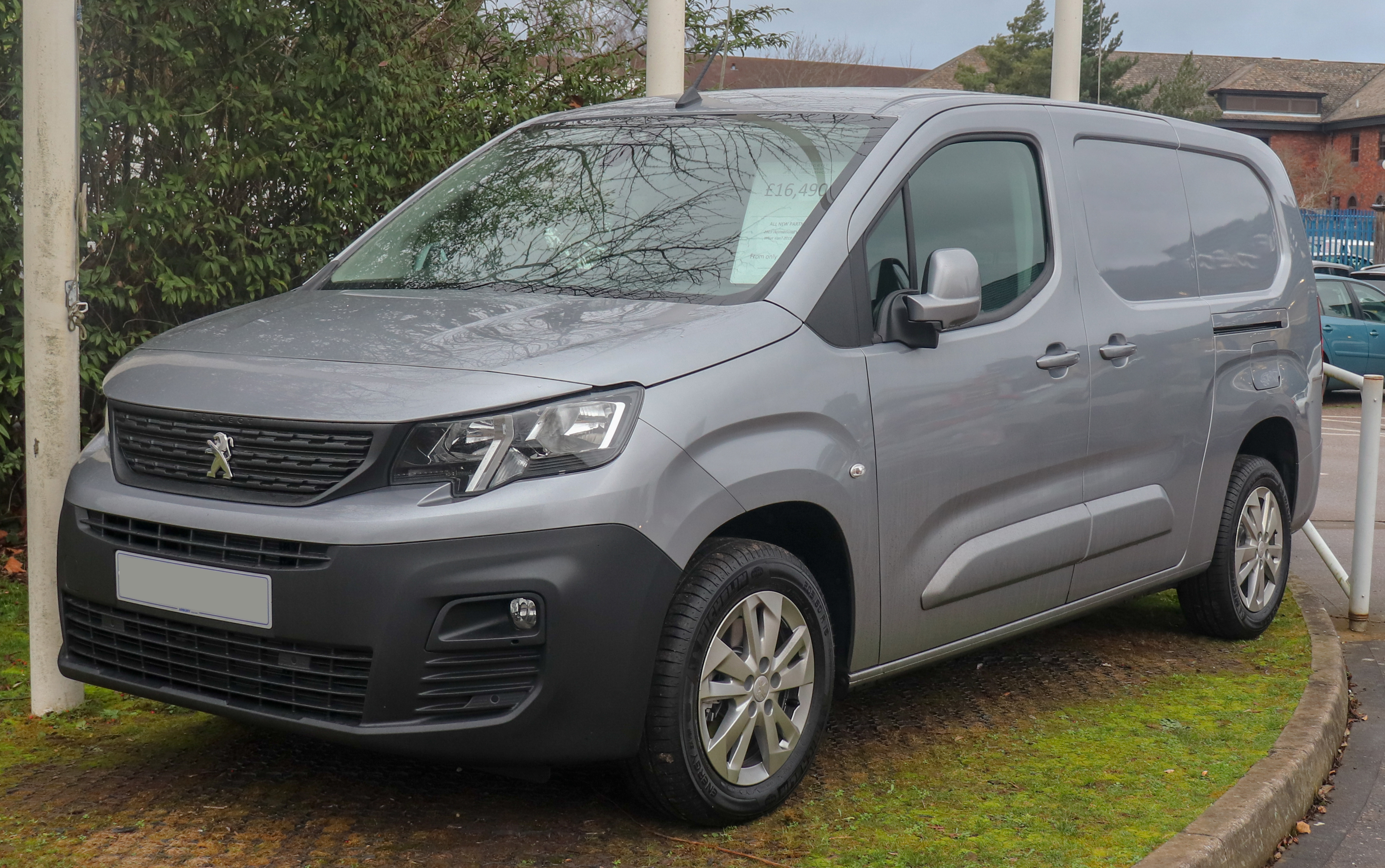 2018 Peugeot Partner Asphalt L2 BlueHDi 1.5 Taken in Leamington Spa